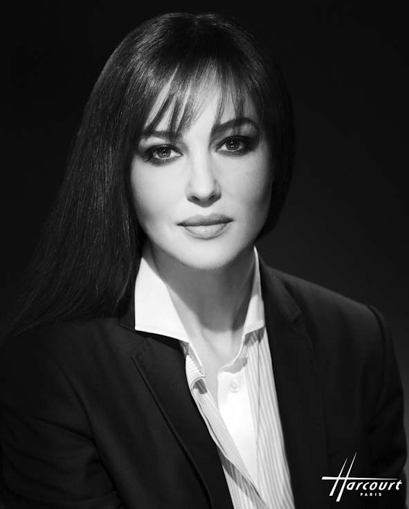 Monica Bellucci photographed by Studio Harcourt Paris